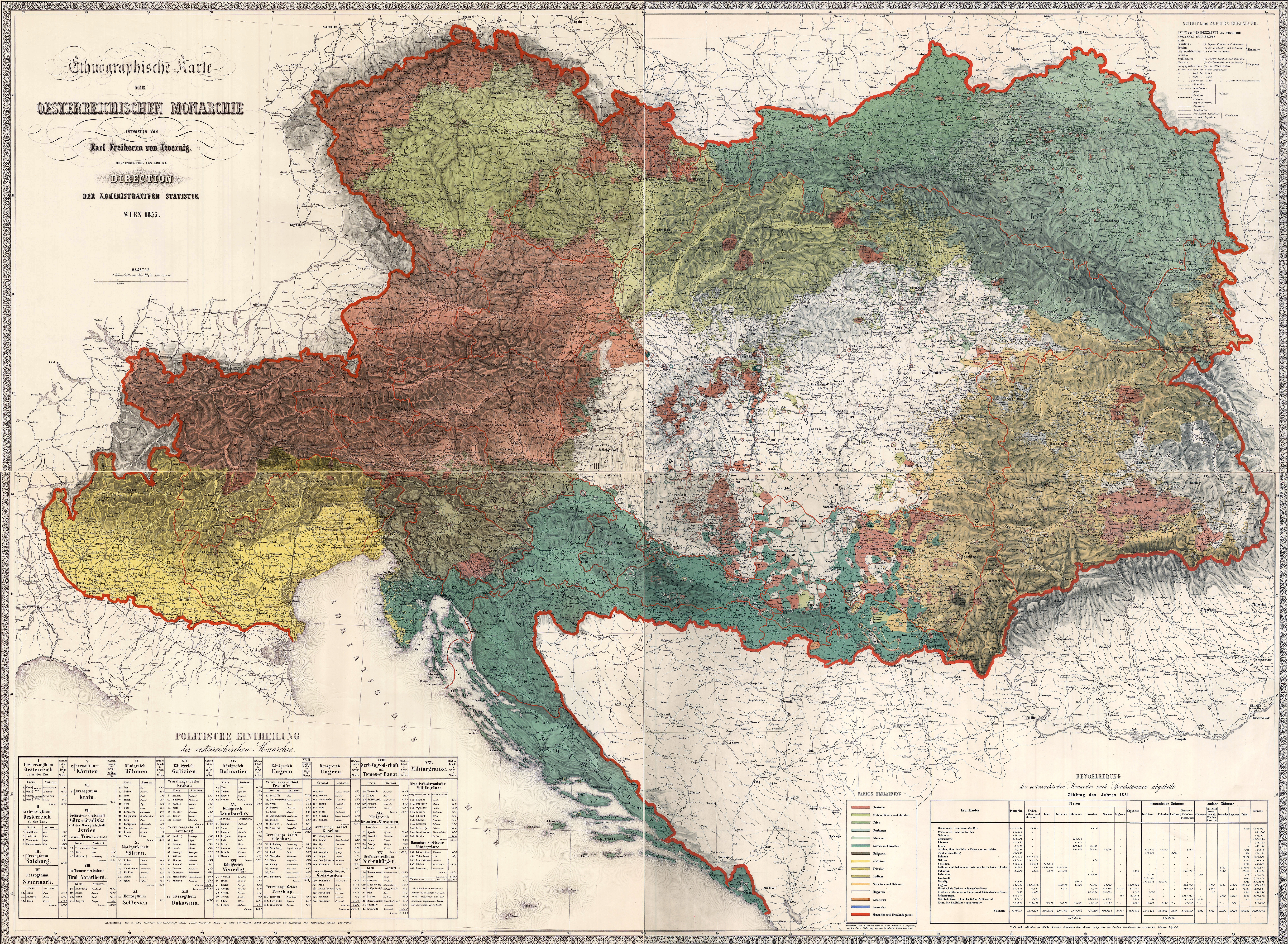 Ethnographic map of the Austrian Monarchy from 1855, made by Karl Freiherr von Czoernig.